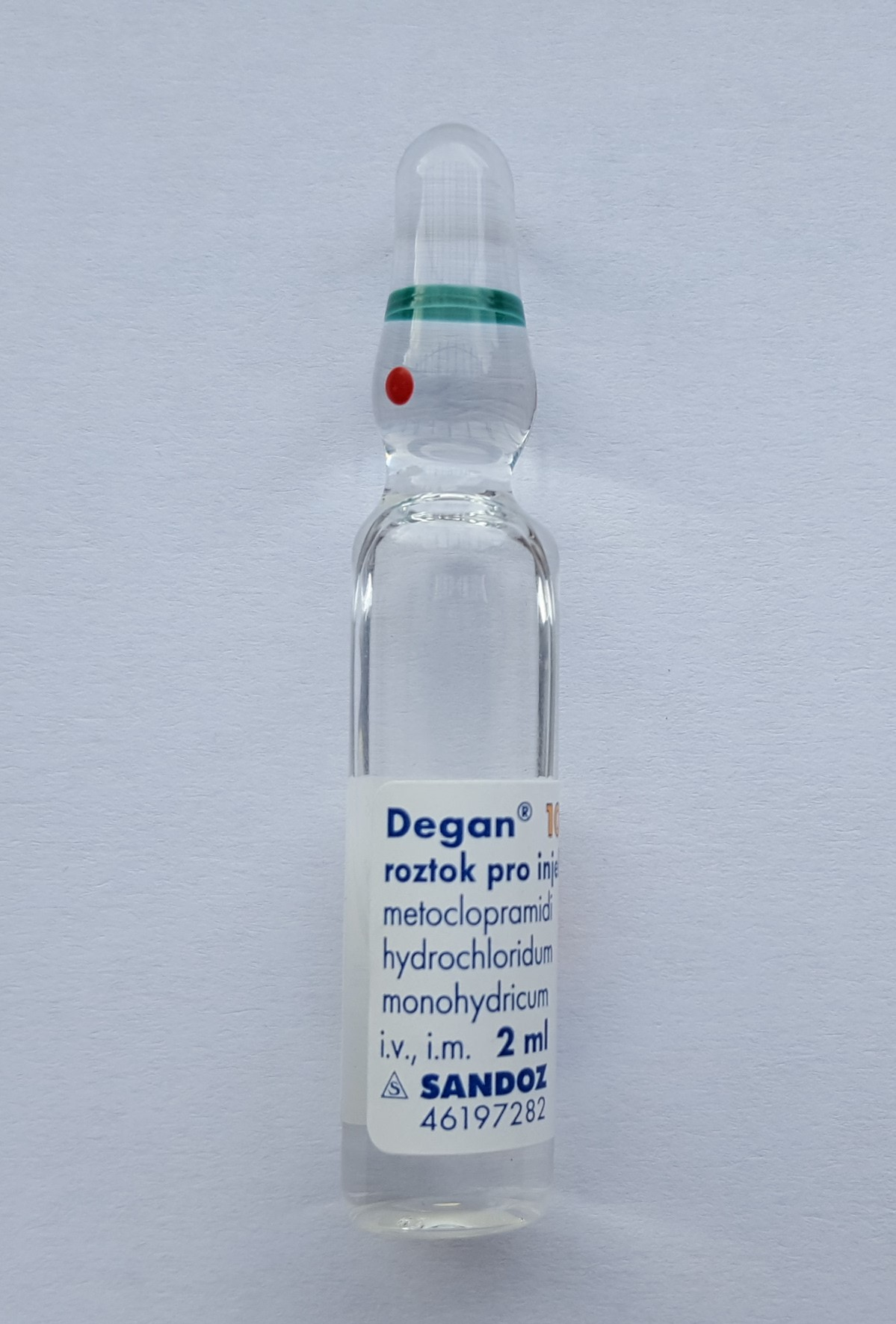 Degan (metoklopramid) 10mg/2ml vials